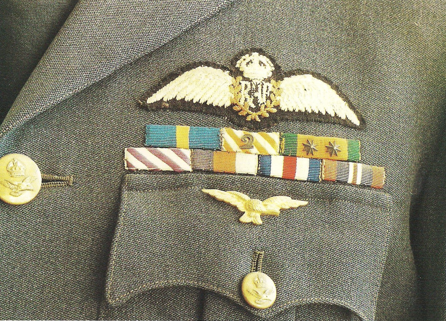 Jan Bosch's Military Honors